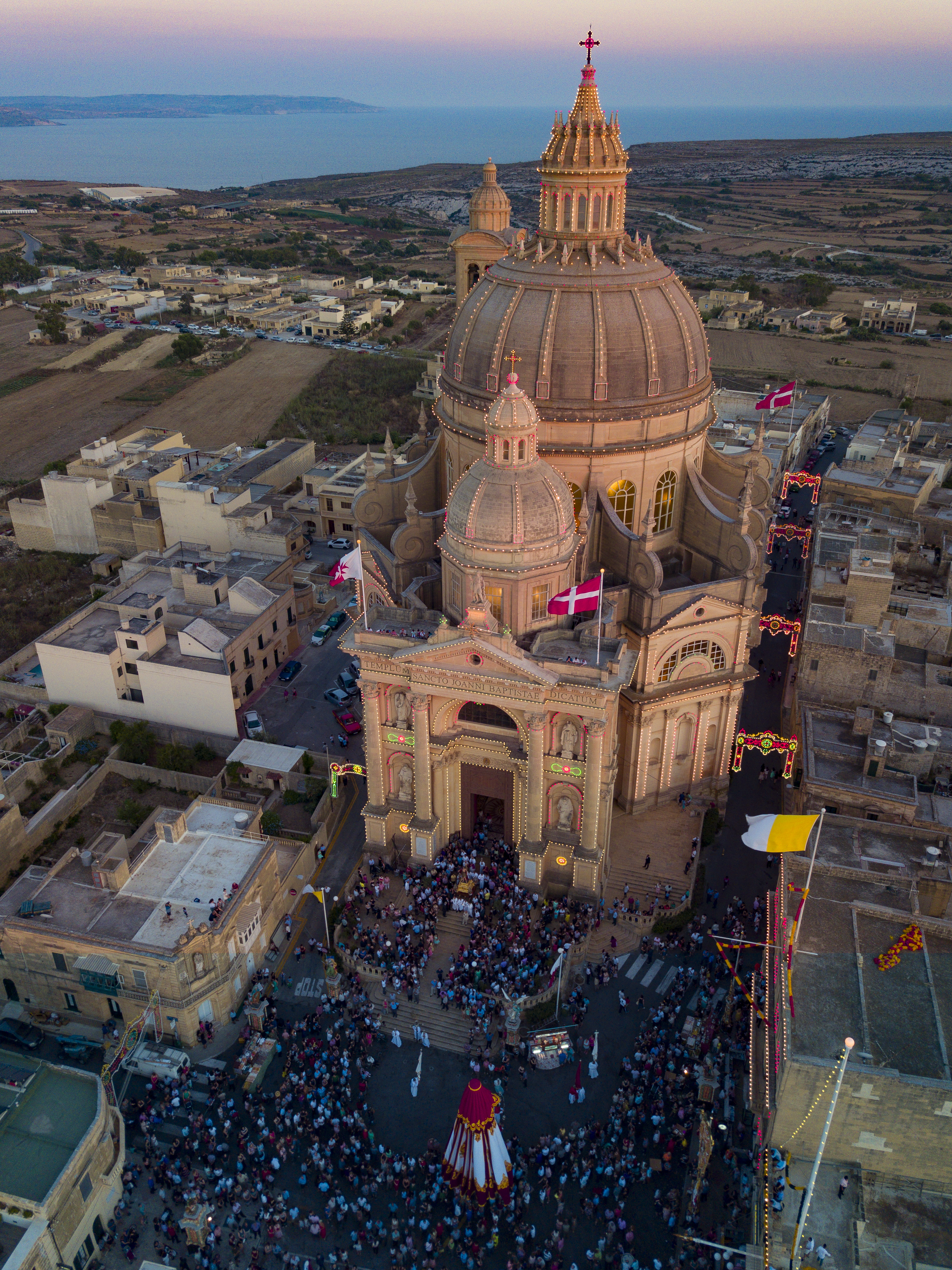 The Xewkija Rotunda - the largest church in Gozo - dominating the cityscape since 1978. This media is about Maltese cultural property with inventory number 01045.